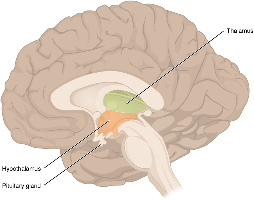 Version 8.25 from the Textbook OpenStax Anatomy and Physiology Published May 18, 2016